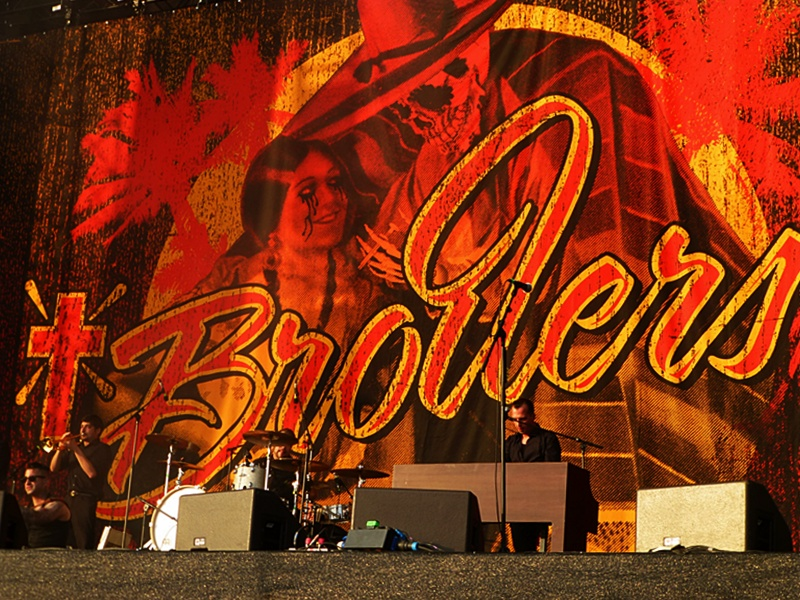 Broilers supported Die Toten Hosen in Freiburg